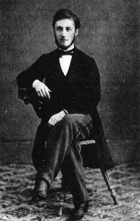 James Guillaume